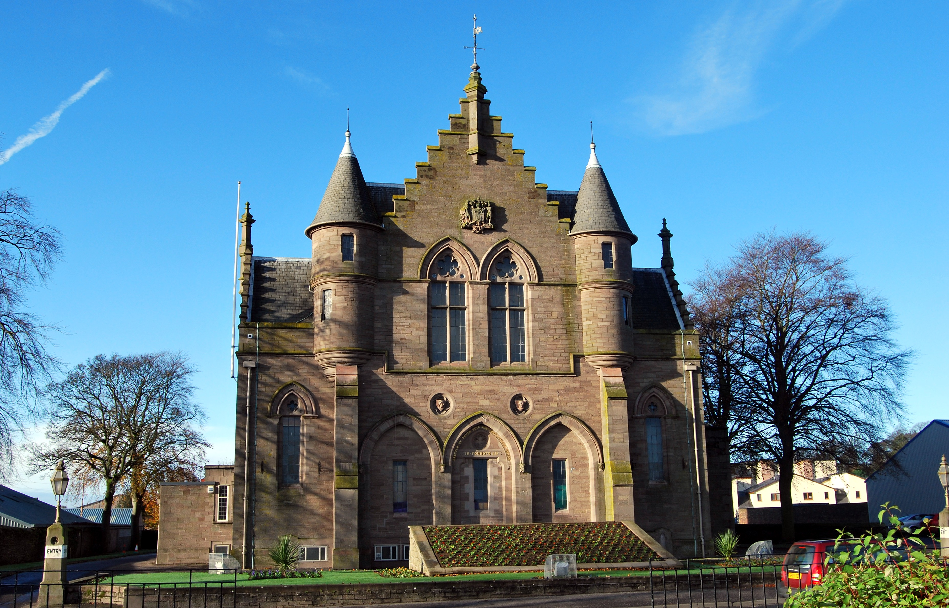 Forfar Reid Hall Scotland